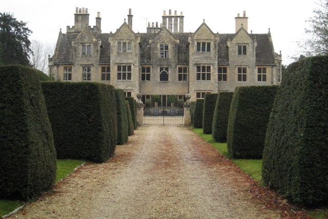 Shipton Court at Shipton Under Wychwood A fine Grade II* listed country house built around 1603. More details here